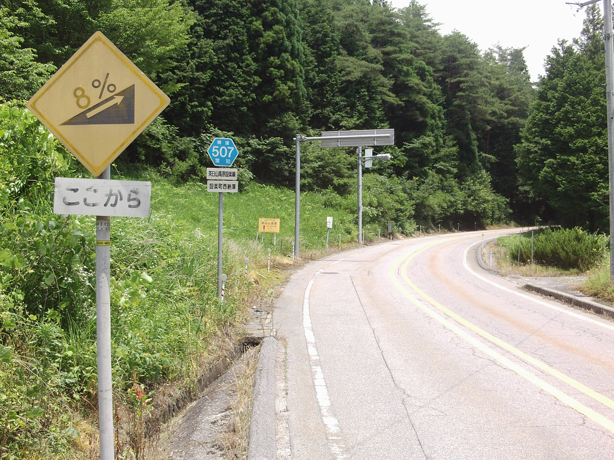 Aichi prefectural road No.507 in Nishinagura Shitara-cho, Kitashitara-gun, Aichi.